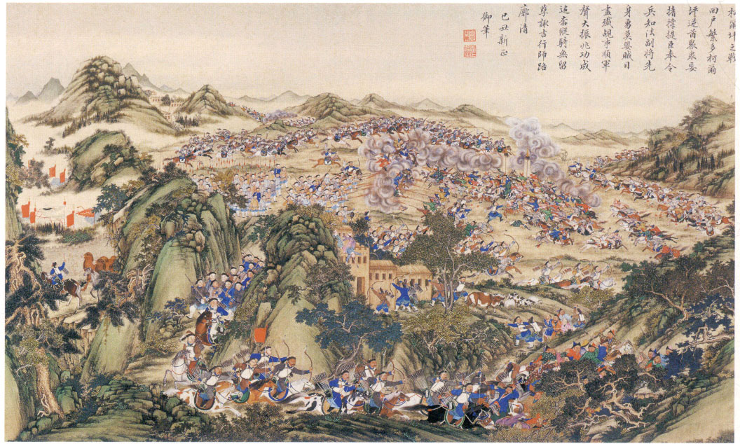 A scene of the Chinese Campaign against Rebels in the East turkestan, 1828